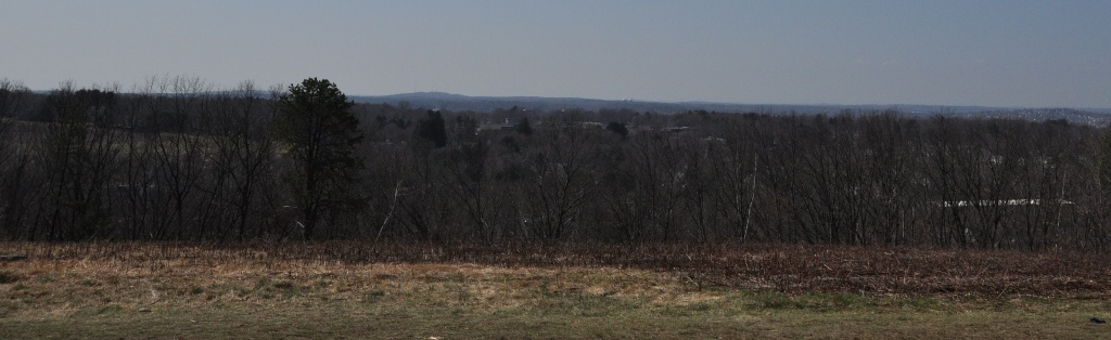 Westward view from the top of Weir Hill in North Andover, Massachusetts.